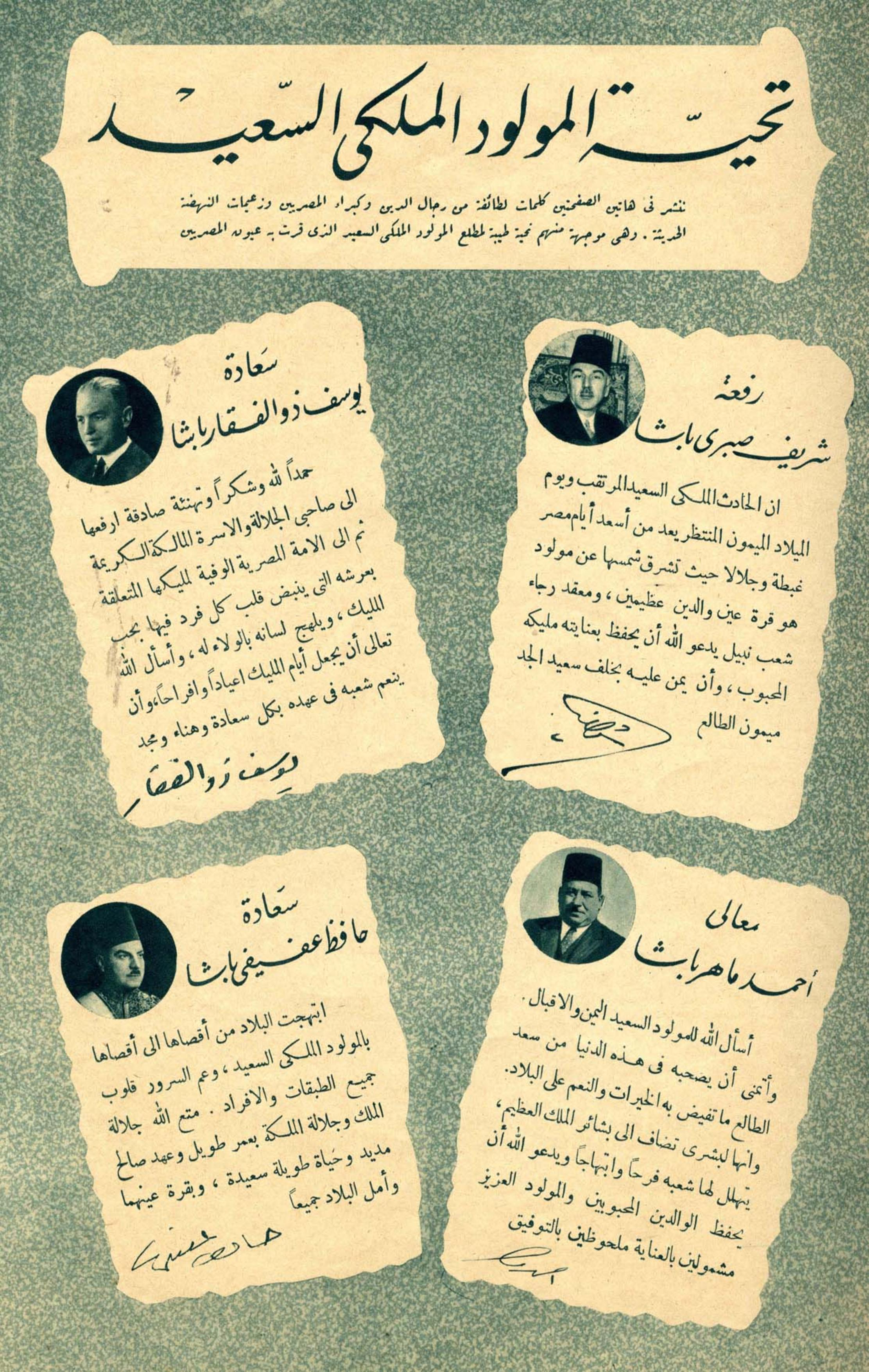 A page published in Al-Musawar magazine juxtaposes different congratulatory letters written by important figures of Egyptian society to felicitate King Farouk and Queen Farida of Egypt on the birth of their new child. There is no clue whatsoever as to the identity of the newborn. The letters could have been written on the occasion of the birth of Princess Ferial (1938–2009), Princess Fawzia (1940–2005) or Princess Fadia (1943–2002). The authors of the letters are: Top left: Youssef Zulficar Pasha (1866 – ?), Queen Farida's father and maternal grandfather of the newborn; Top right: Sherif Sabri Pasha (1895 – ?), King Farouk's maternal uncle and granduncle of the newborn; Bottom left: Hafez Afifi Pasha (1886–1961); Bottom right: Ahmad Mahir Pasha (1888–1945).